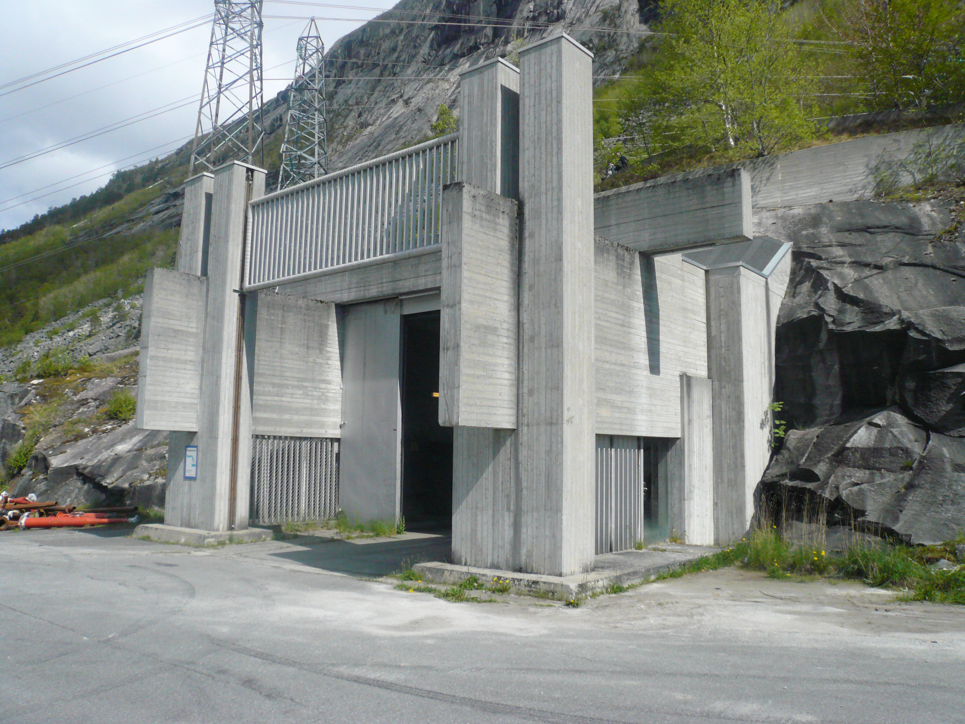 Tysso II